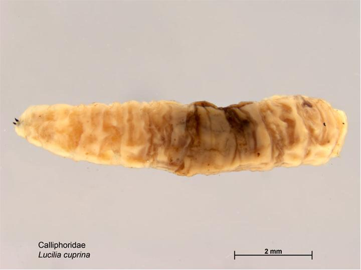 Lucilia cuprina, Dorsal - Larvae : Diagnostic Notes : Abdomen integument metallic green. Fore femur metallic green. Thoracic squama bare. Wings hyaline; stem vien bare; basicosta yellow; subcostal sclerite pubescent. Suprasquamal ridge with posterior parasquamal tuft. Supraspiracular convexity pubescent. Postocular microtrichial pile (minute hairs) on vertex directed transversely, smooth, with a sharp boundary where pile changes direction. Humerus with 2-4 hairs. Quadrant between anterior margin and discal setae with 15-25 setulae. Male : Hairs on abdominal sternites much longer than on hind femur and tibia.